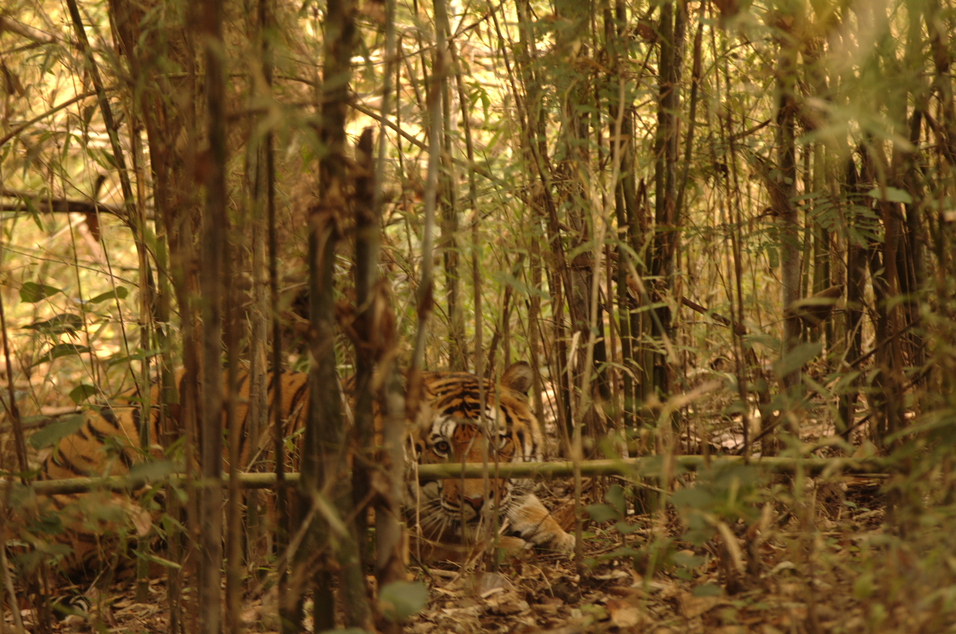 Tiger in Kanha